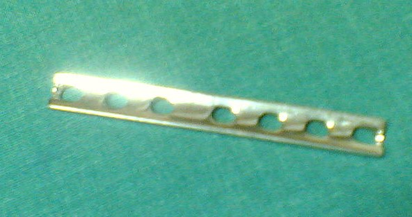 Compression plate for use in orthopedic surgery